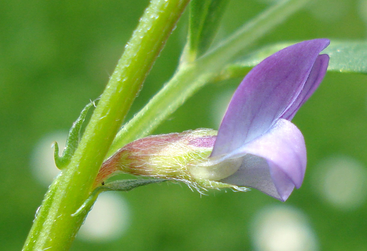 Vicia lathyroides, Unterfranken (Germany)